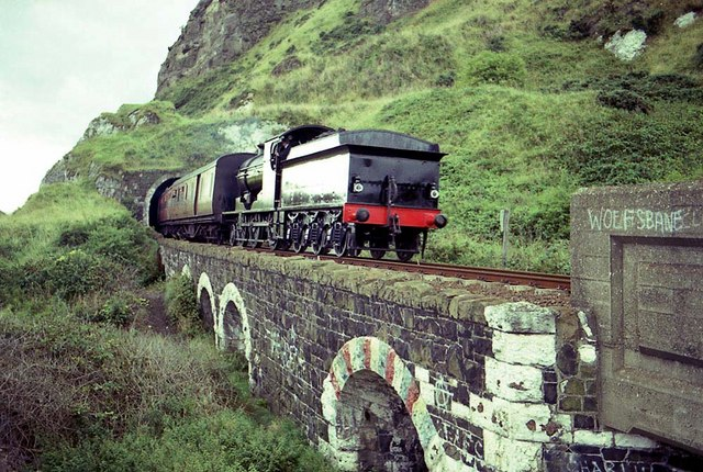 GSR K2 Class 2-6-0 steam locomotive 461, running tender first, hauling an RPSI excursion train emerging from Whitehead Tunnel heading for Larne Harbour, Co. Down, Northern Ireland